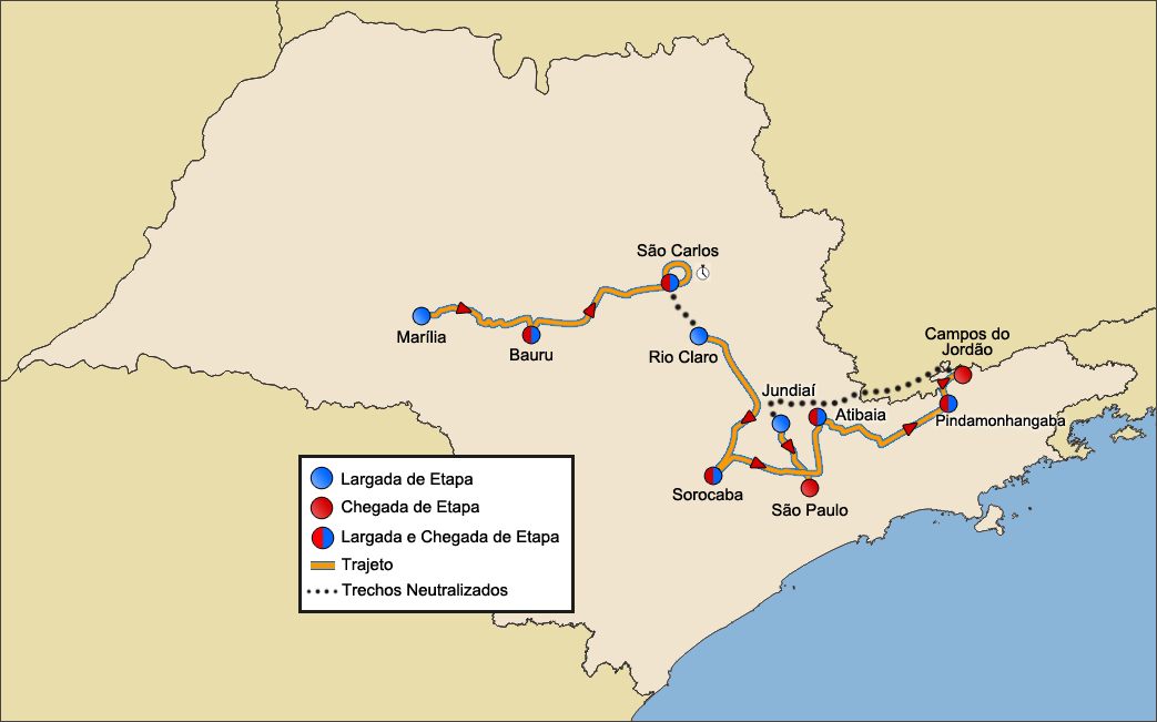 Route of the 2012 Volta Ciclística de São Paulo (cycling race)